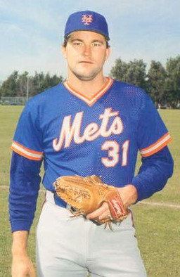 Professional baseball player Bruce Berenyi